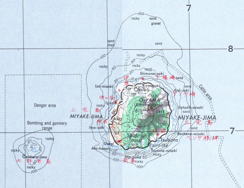 map of Miyake-jima, pieced together from parts of two maps